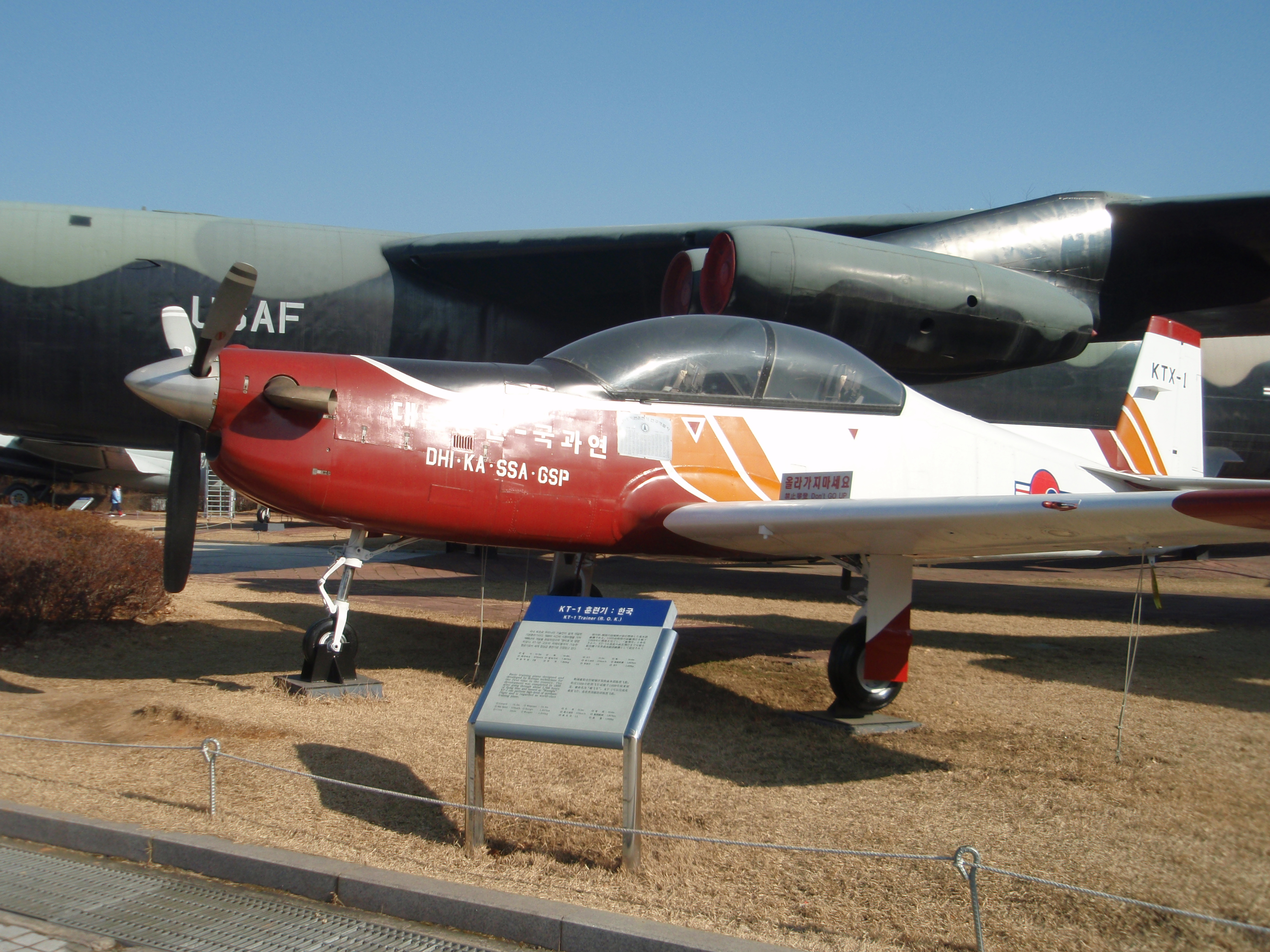 KT-1, basic training aircraft, Republic of Korea